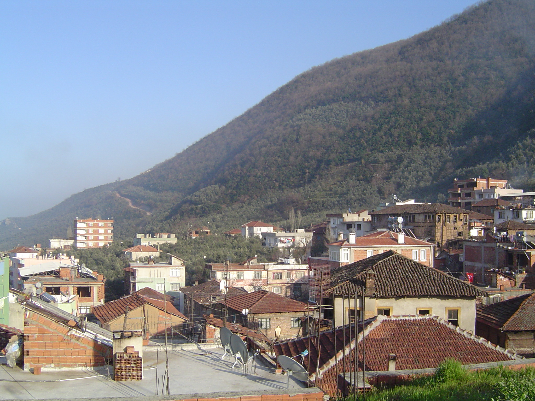 A view from Narlıca, Orhangazi.